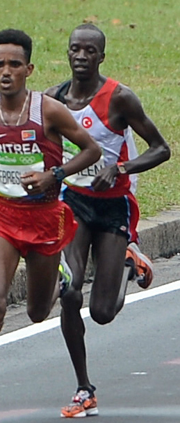 Rio de Janeiro - Sob chuva forte atletas da maratona masculina passam pelo aterro do Flamengo (Tânia Rêgo/Agência Brasil)